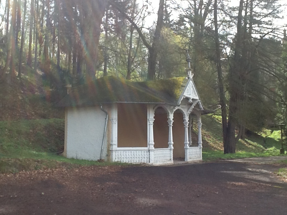 Lázně Kyselka 2014 4